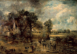 The Hay Wain (full-size sketch)